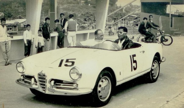 Francisco C. Ventura, in his Alfa Romeo at the 1962 Macau Grand Prix. Ventura won first in a 30-lap ACP class race. Same year Dodjie Laurel won his first Macau Grand Prix.